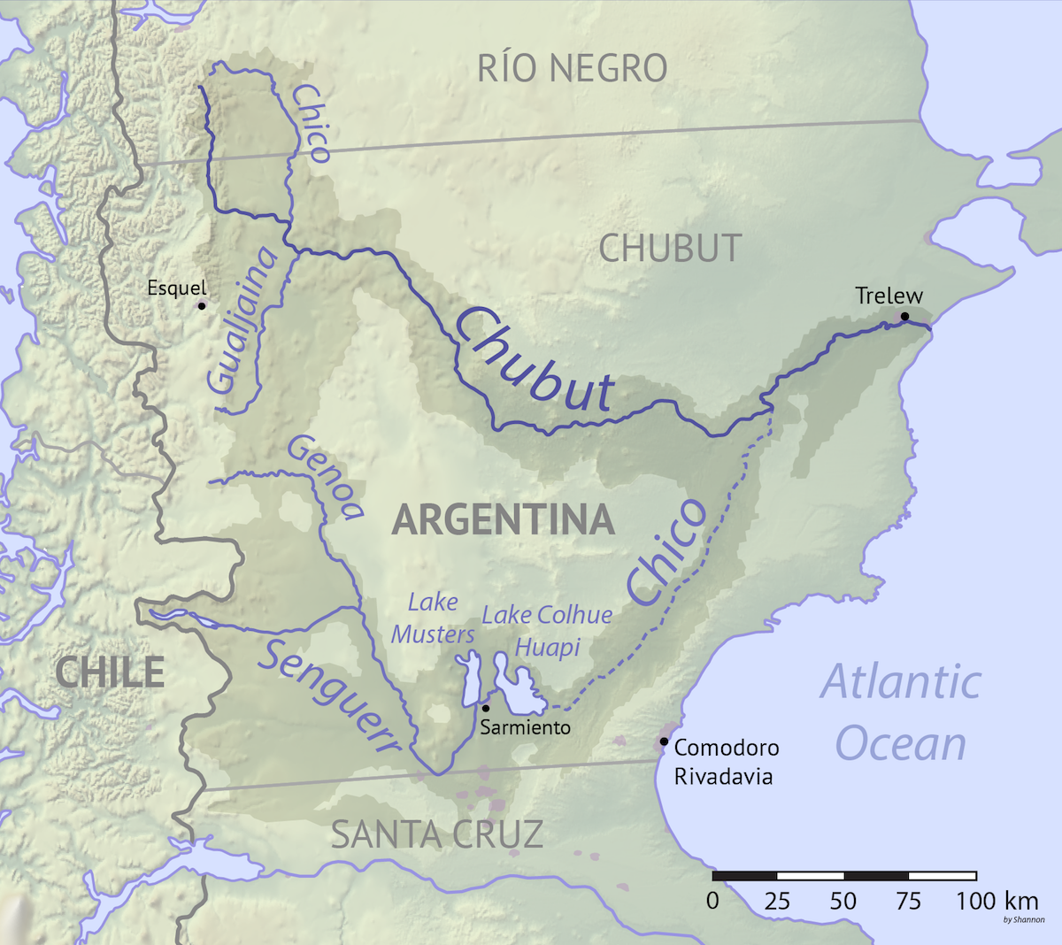 Map of the Chubut River drainage basin, southern Argentina. The ephemeral Rio Chico is represented by dotted line. Created using Natural Earth and USGS data.